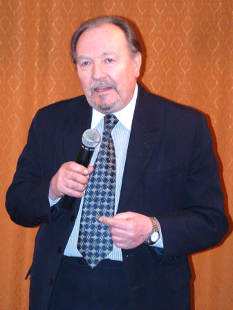 This image has been copied from the source with the permision of webmaster (and with the consent of the director of the service). The permission was granted to Stan Zurek (Zureks) via email from Mirosław Domański Ignacy Gogolewski